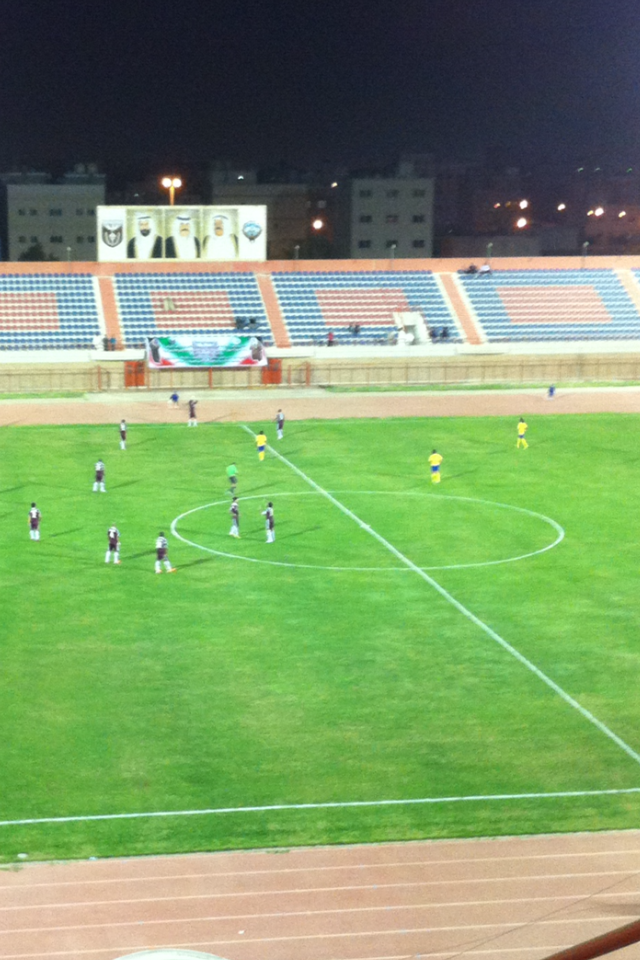 AlNAsr sport club stadium picture of it during a match in the AFC Cup 2011